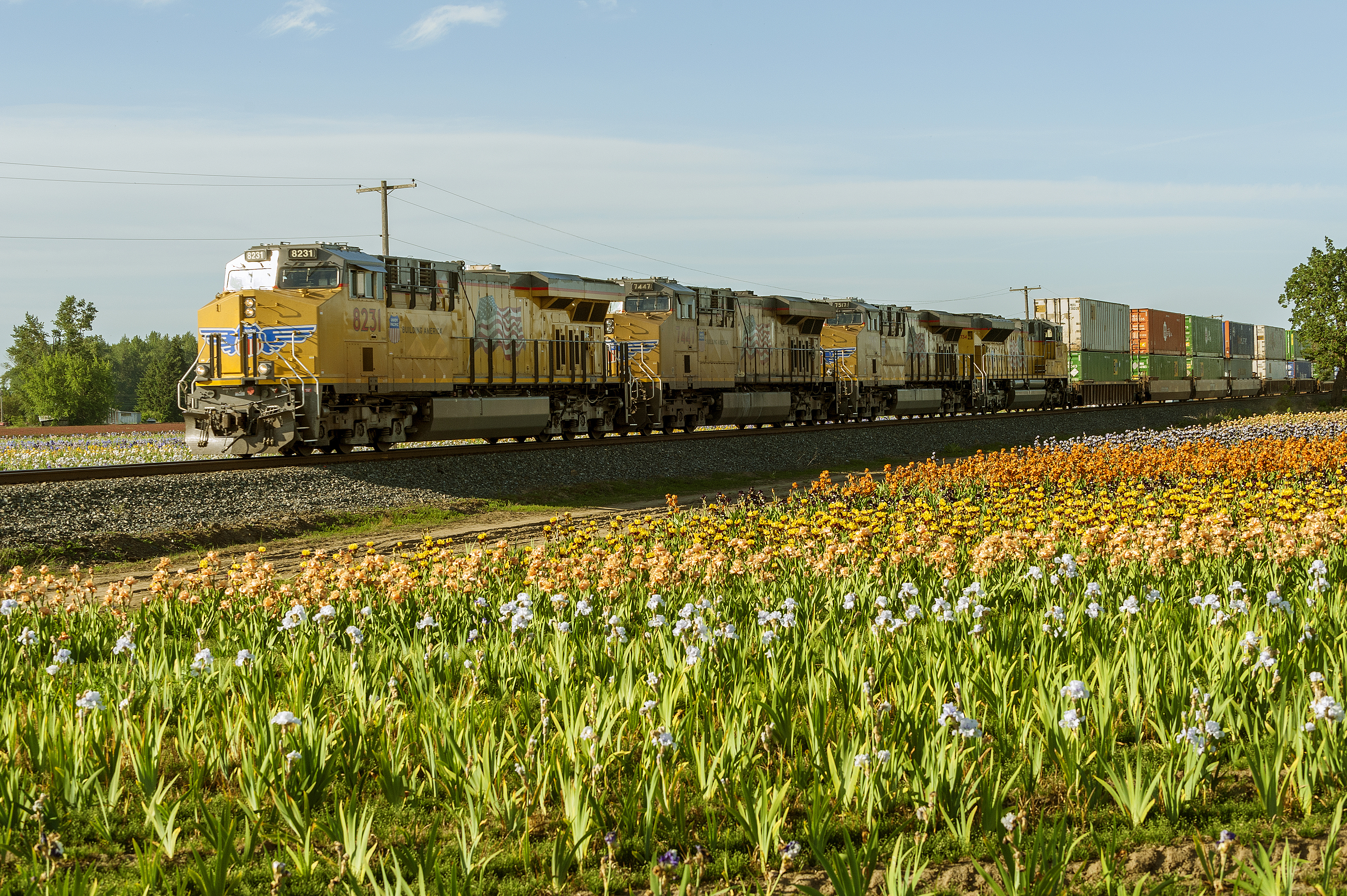 One of a series of Oregon Talgo (Amtrak Cascades) trainset photos.